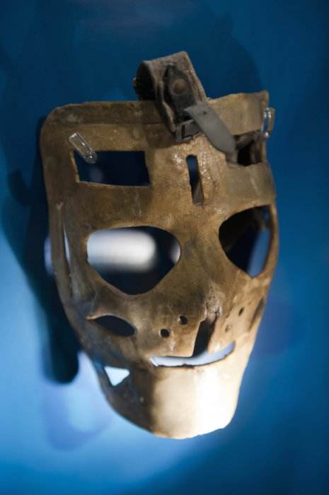 Terry Sawchuk's Mask